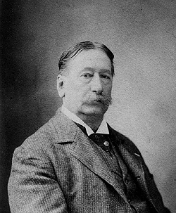 Daniel ridgway knight